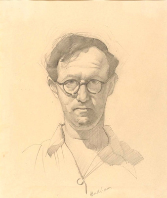 Sketch of Australian artist Herbert Badham